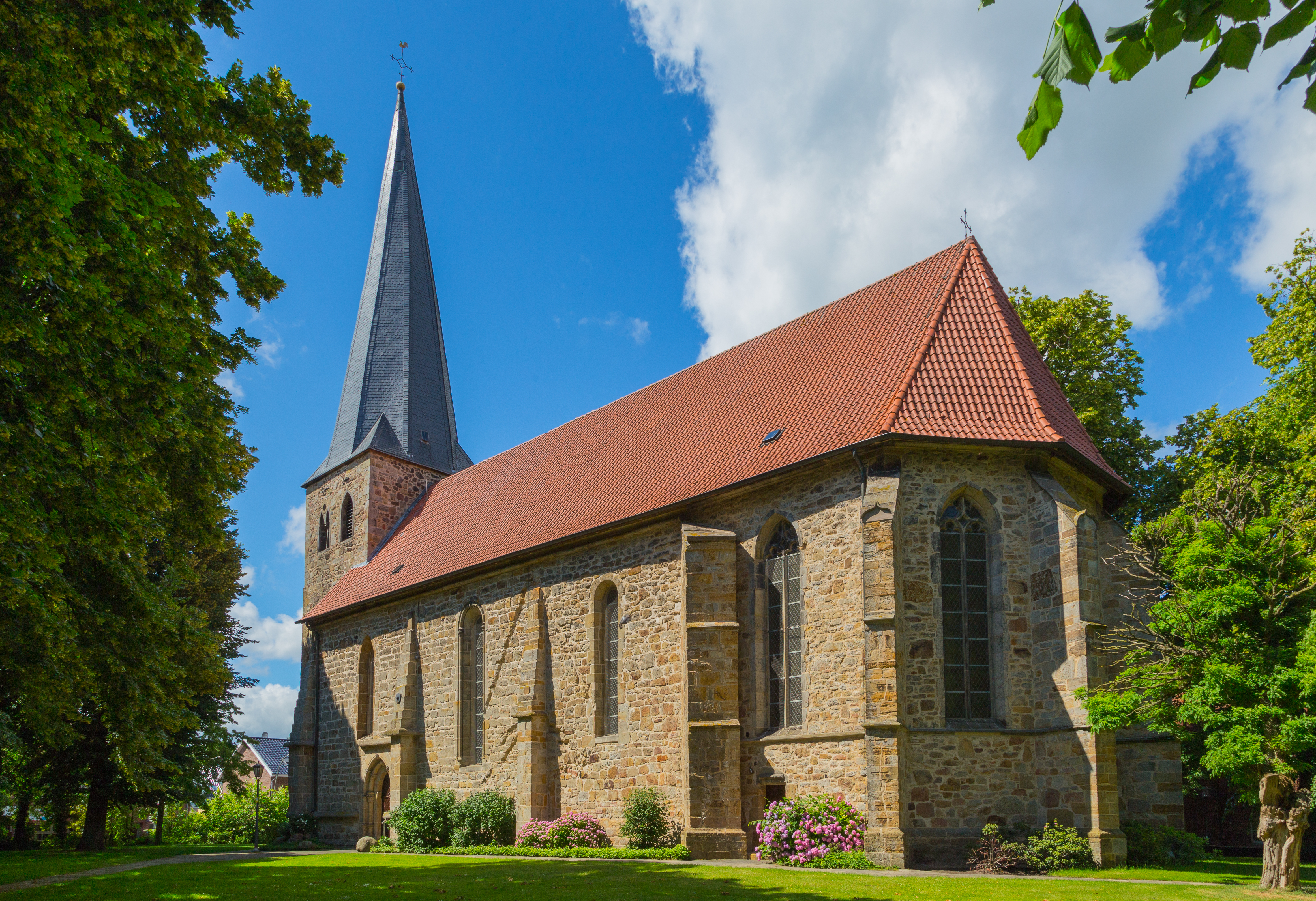 The Reformed Church of Freren, Landkreis Emsland, Lower Saxony, Germany. The building is a listed cultural heritage monument.